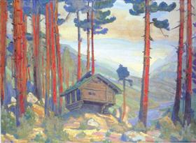 Work by Nicholas Roerich